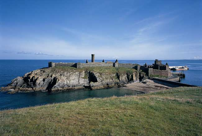 Photo of Peel Castle.